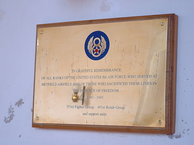 Memorial To U.S.A.A.F.. Memorial in Metfield church to 353rd fighter group and 491 st bomb group more info see RAF_Metfeld and 435661